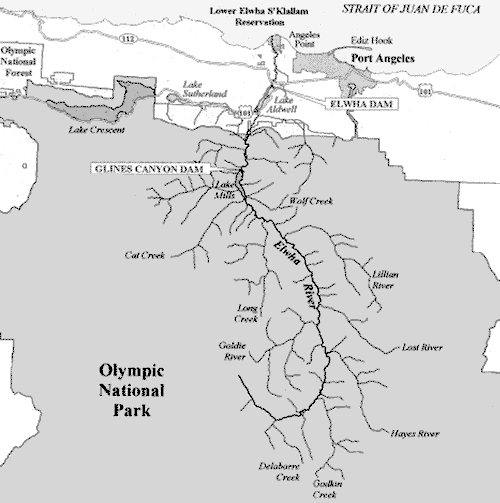 Map of the Elwha River and tributaries with dams. Image from the US National Park Service website [1].